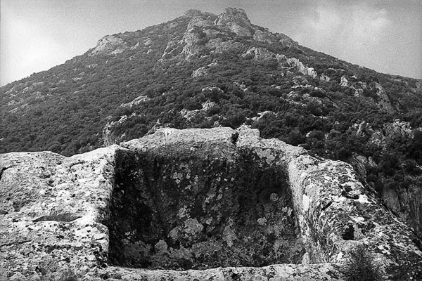 "Throne of Pelops", Yarikkaya locality, Mount Sipylus in Manisa, Turkey; an isolated stone bench or altar possibly carved to accommodate a stone or wooden statue and which recalls Phrygian cult structures (Source: The Lydians and Sard, H. Dedeoğlu, 2003, reviewed Catherine M. Draycott, Somerville College, Oxford, Bryn Mawr Classical Review 2007.04), nevertheless primarily associable with Lydia